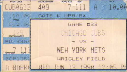 A ticket for a June 13, 1990 Major League Baseball game featuring the New York Mets versus the Chicago Cubs at Wrigley Field.